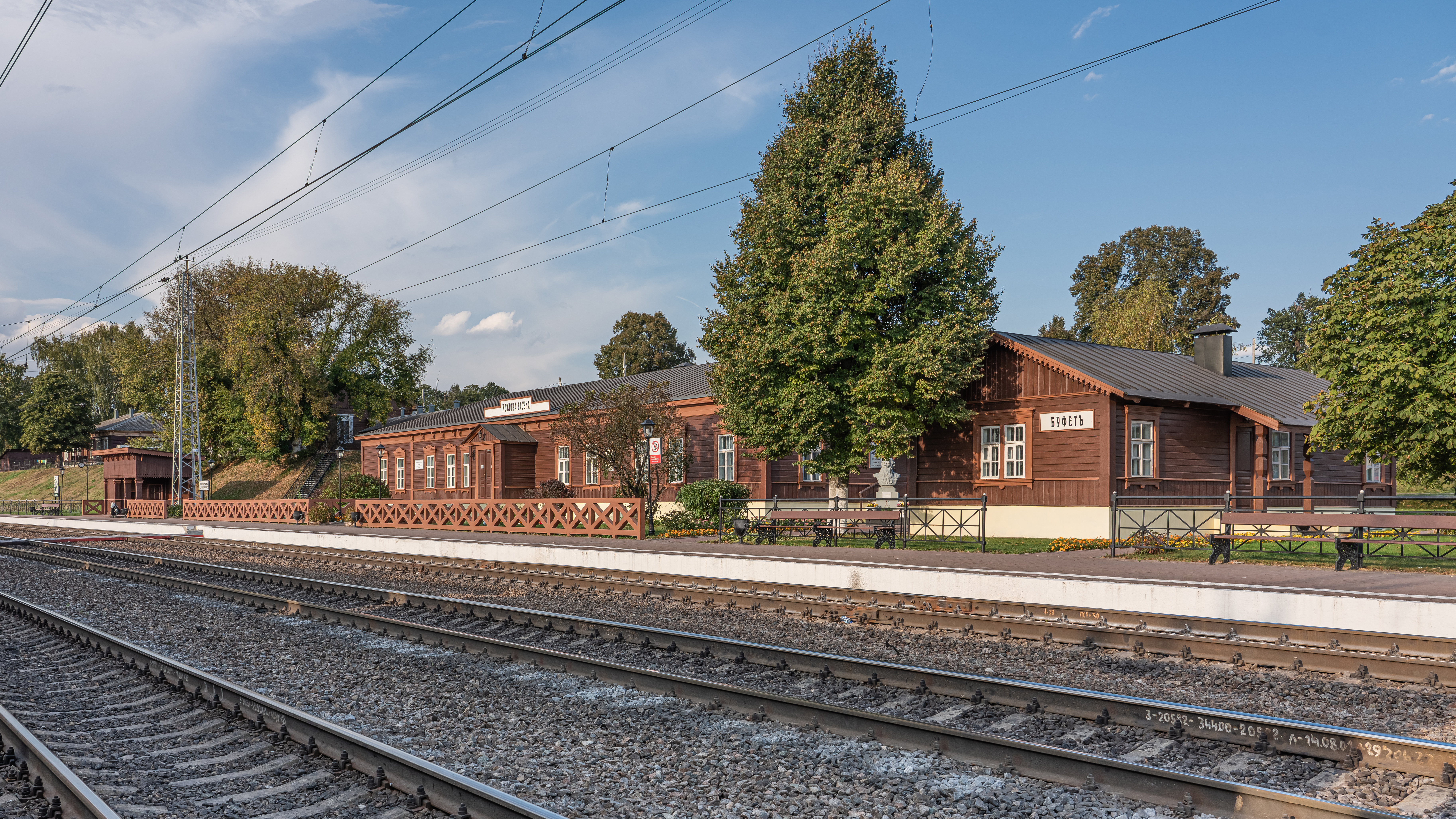 Yasnaya Polyana (or Kozlova Zaseka) railway station in the surroundings of Yasnaya Polyana estate near Tula, Russia